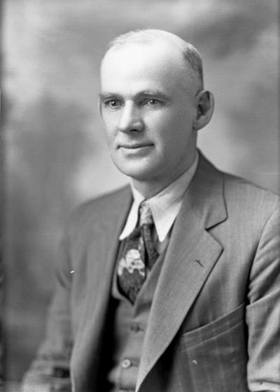 Representative John R. Jones, 1933